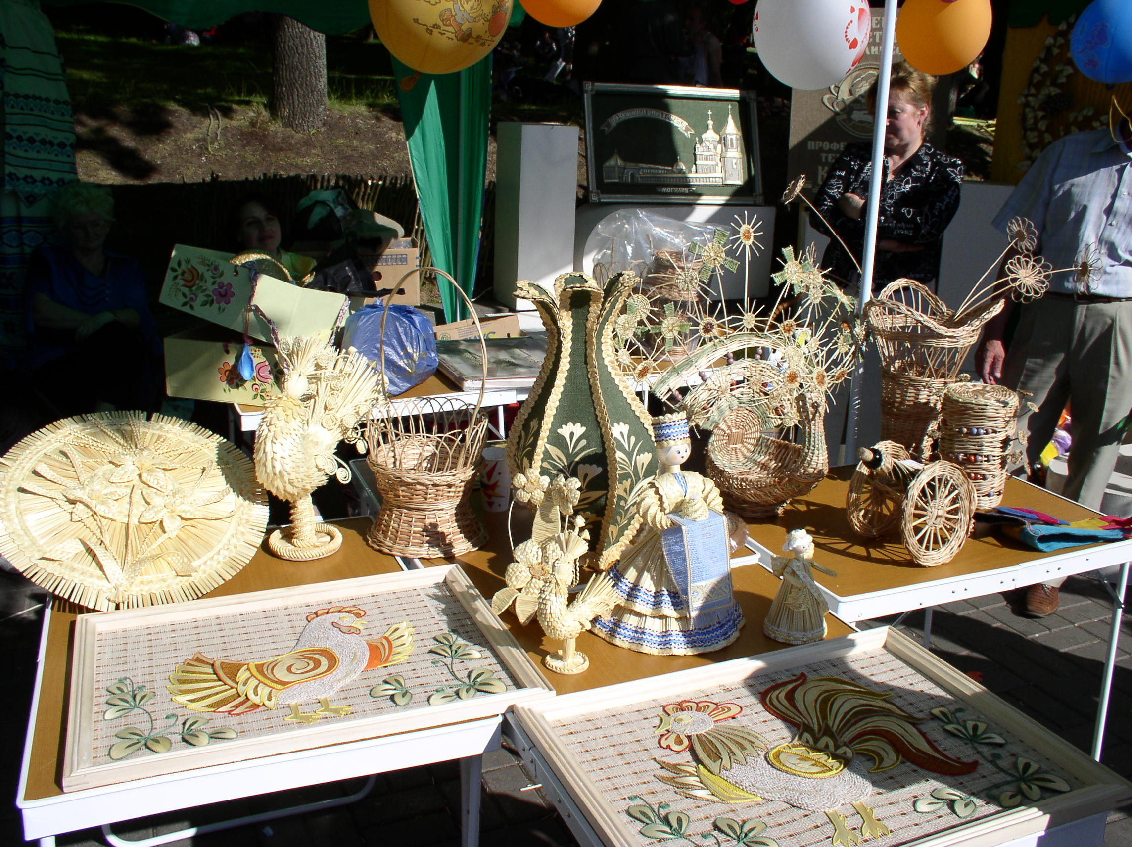 Handicrafts from straw. Exhibition of traditional crafts, Minsk, Belarus.